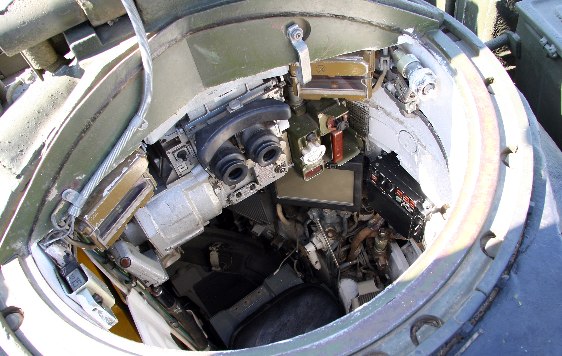 A T-80U tank interior. Commander